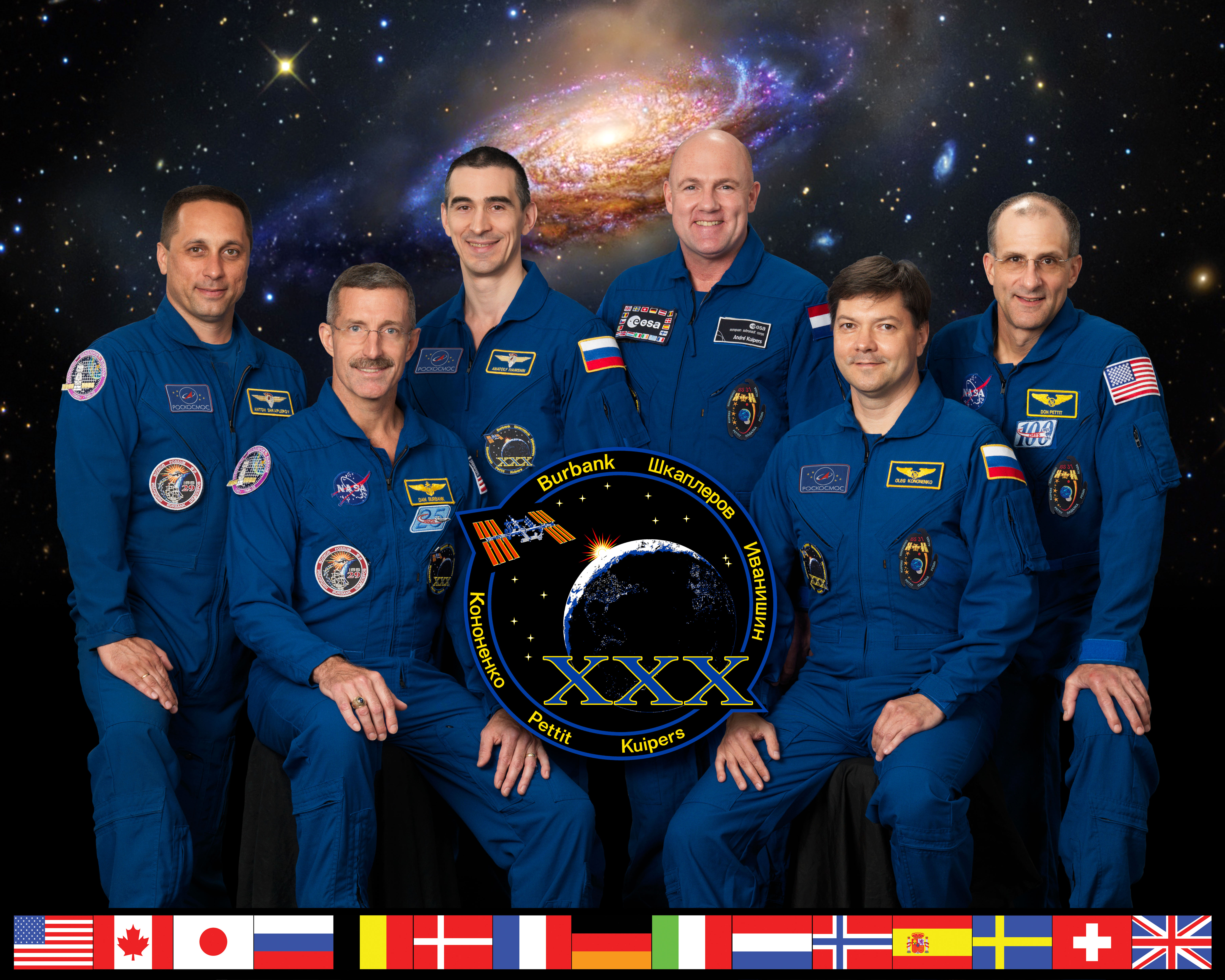 Expedition 30 crew members take a break from training at NASA's Johnson Space Center to pose for a crew portrait. Pictured on the front row are NASA astronaut Dan Burbank, commander; and Russian cosmonaut Oleg Kononenko, flight engineer. Pictured from the left (back row) are Russian cosmonauts Anton Shkaplerov and Anatoly Ivanishin; along with European Space Agency astronaut Andre Kuipers and NASA astronaut Don Pettit, all flight engineers.